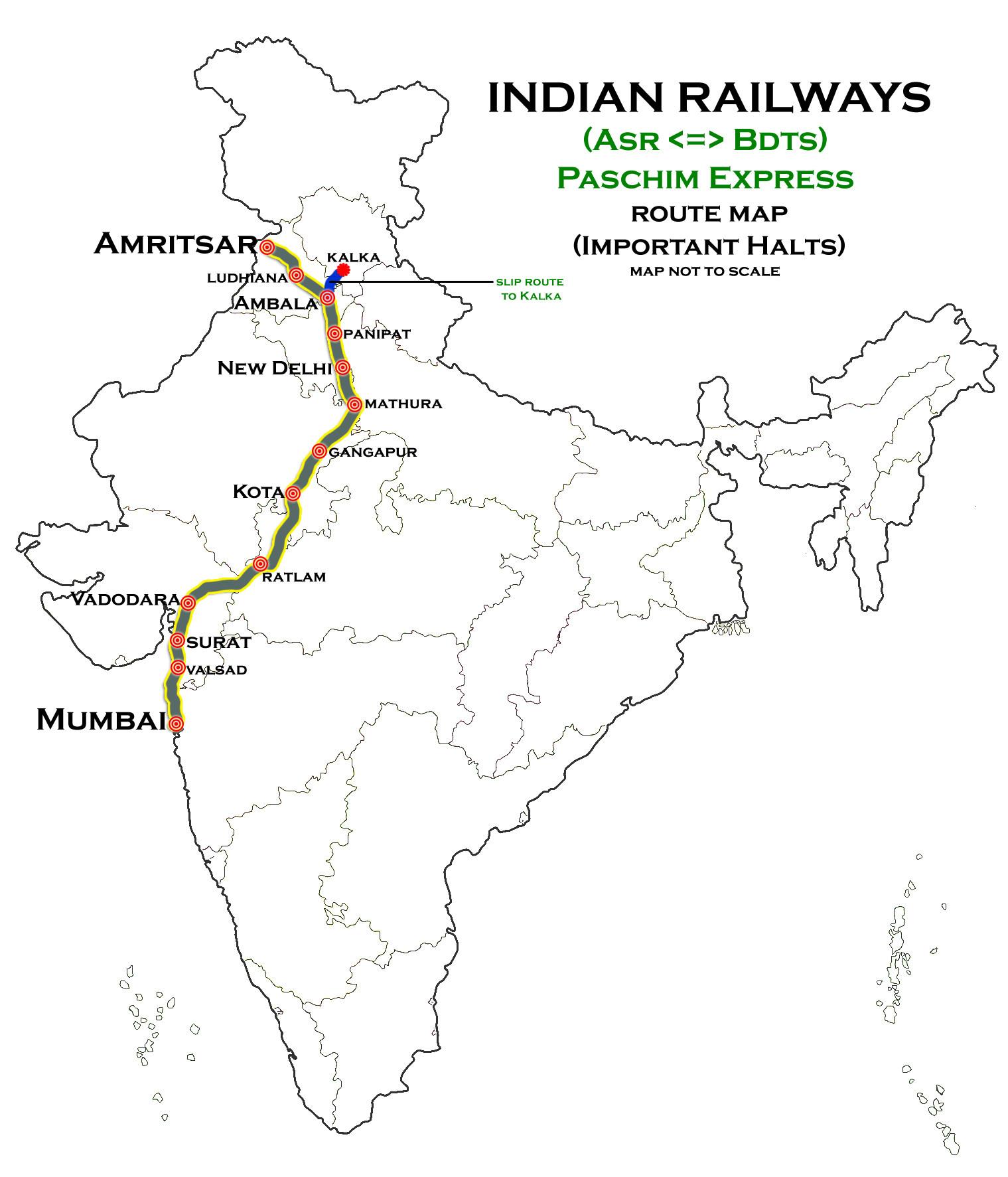 Paschim Express (Amritsar - Mumbai) and (Paschim Slip express from Kalka - Mumbai)Route map